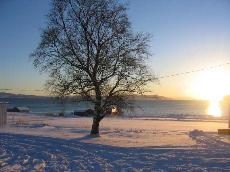 Picture taken from Frosta, Norway. The city of Trondheim can be seen in the background.